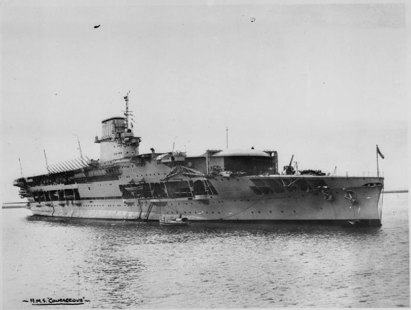 HMS Courageous Stationary, coastal waters.